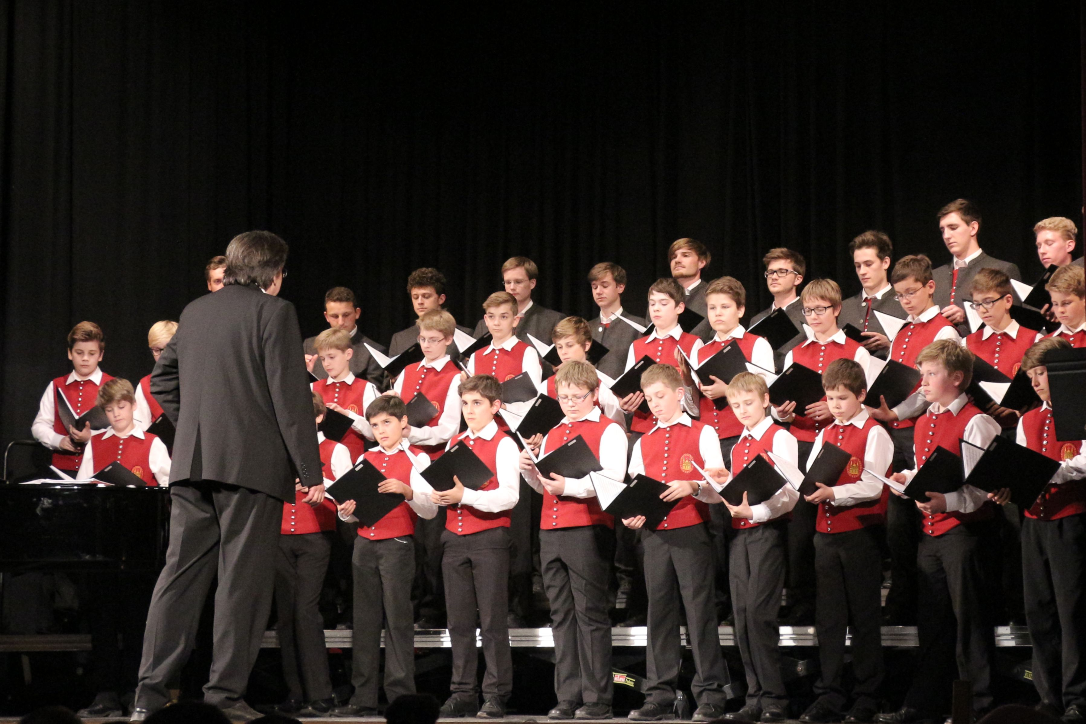 Augsburg Cathedral Boys' Choir